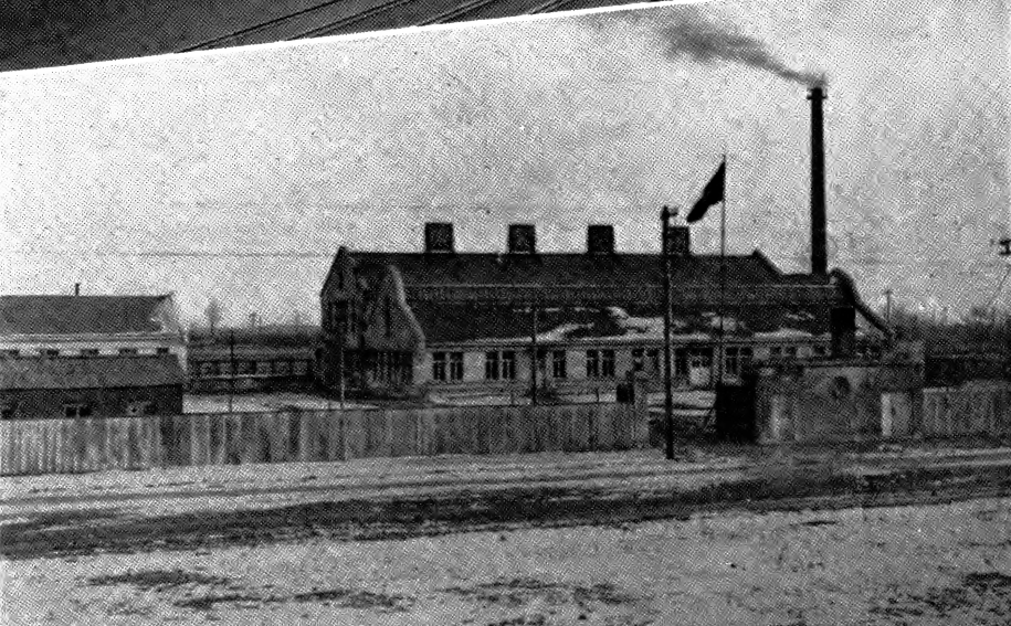 Okubo factory, Kawasaki factory and Mukden factory of Meiji Seika, from 20th Anniversary book of Meiji Seika.